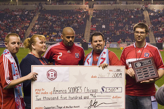 Board members of Section 8 Chicago, award CJ Brown with the inaugural Supporters' Player of the Year award and a donation to the Charity of his choosing on November 7, 2009.